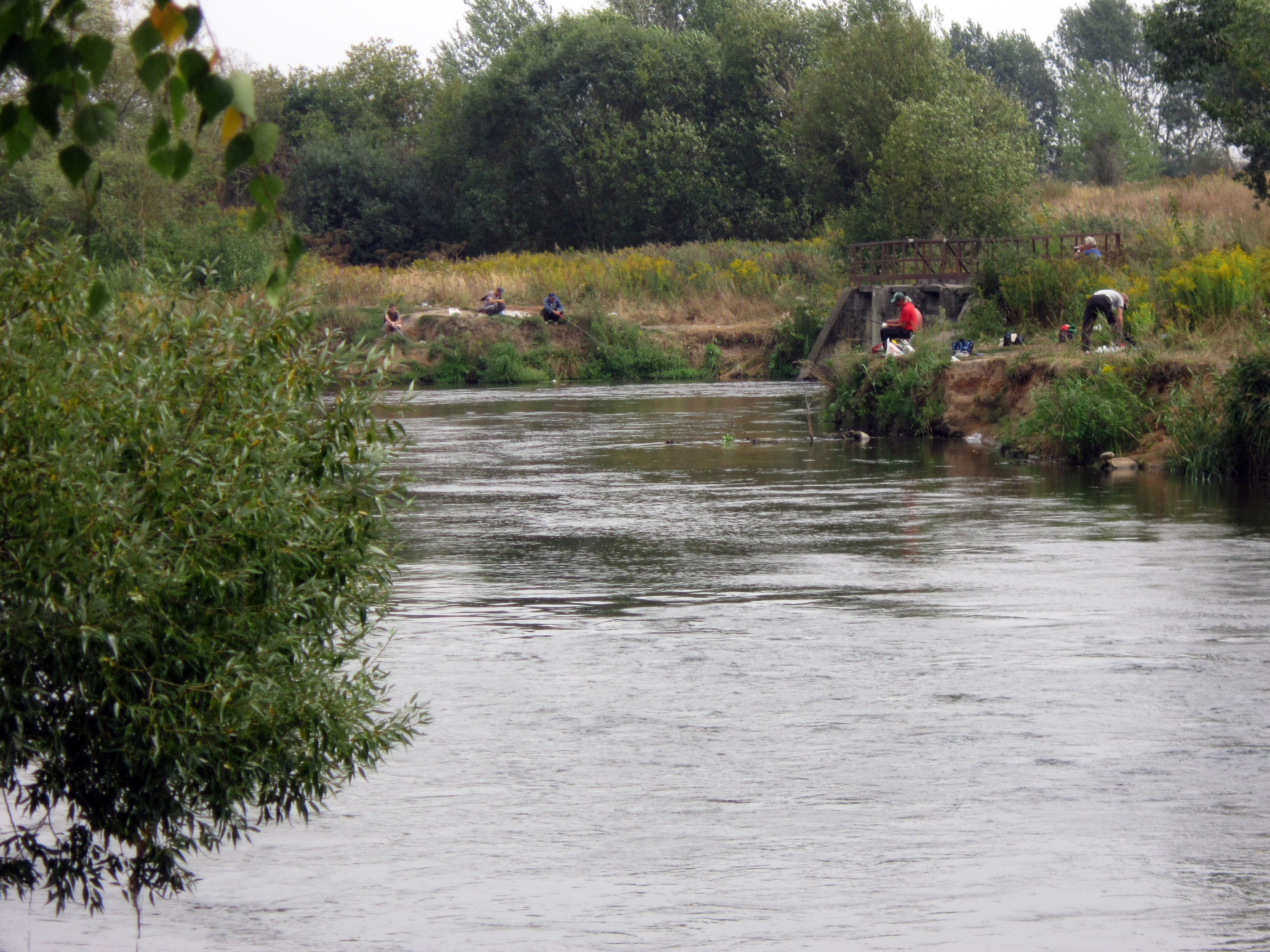 River Svislač in Minsk, Belarus, near the Šabany district. People are fishing near the outlet of the Minsk sewage treatment plant